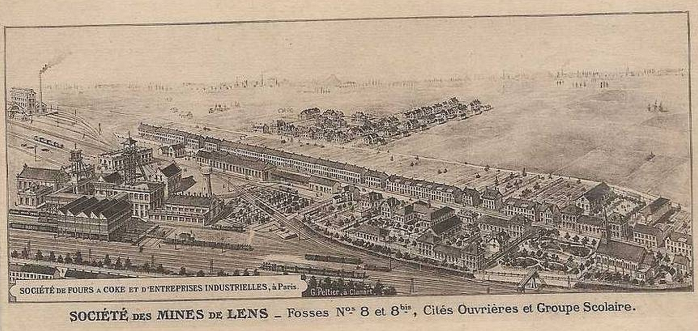 Coalpits n° 8 - 8 bis, Compagnie des mines de Lens, Vendin-le-Vieil, Pas-de-Calais, France.